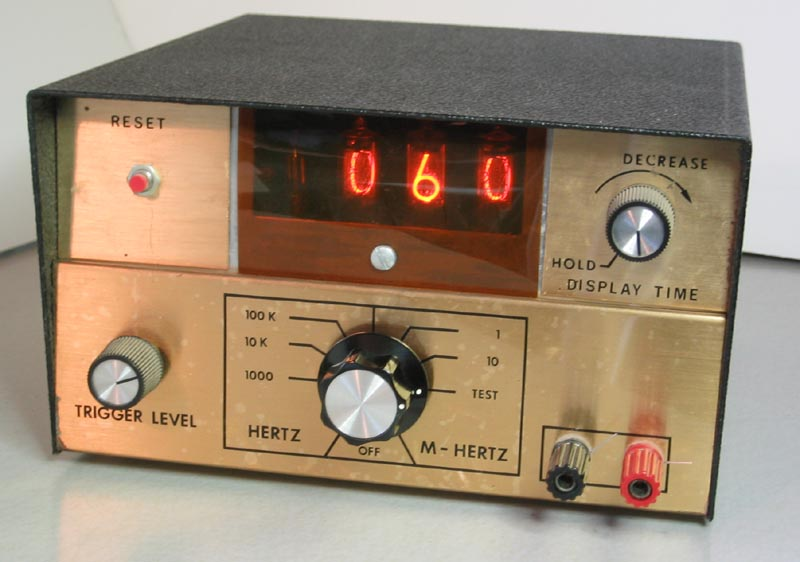 SWTPC Digital Measurements Lab with Frequency Counter plugin. Designed by Daniel Meyer, Published in Popular Electronics in November of 1970. Sold as three kits -- Cabinet and Power Supply $19.55, Multi-decade Nixie Readout $49.50, Frequency Counter Plugin $$34.95. Also offered were a Digital Multimeter, Digital Thermometer, and Time Measurement plugins. This particular unit assembled by Will McCown circa 1973 Photograph 2006 Will McCown